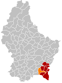 Own edit of Kanton RemichLocatie.png